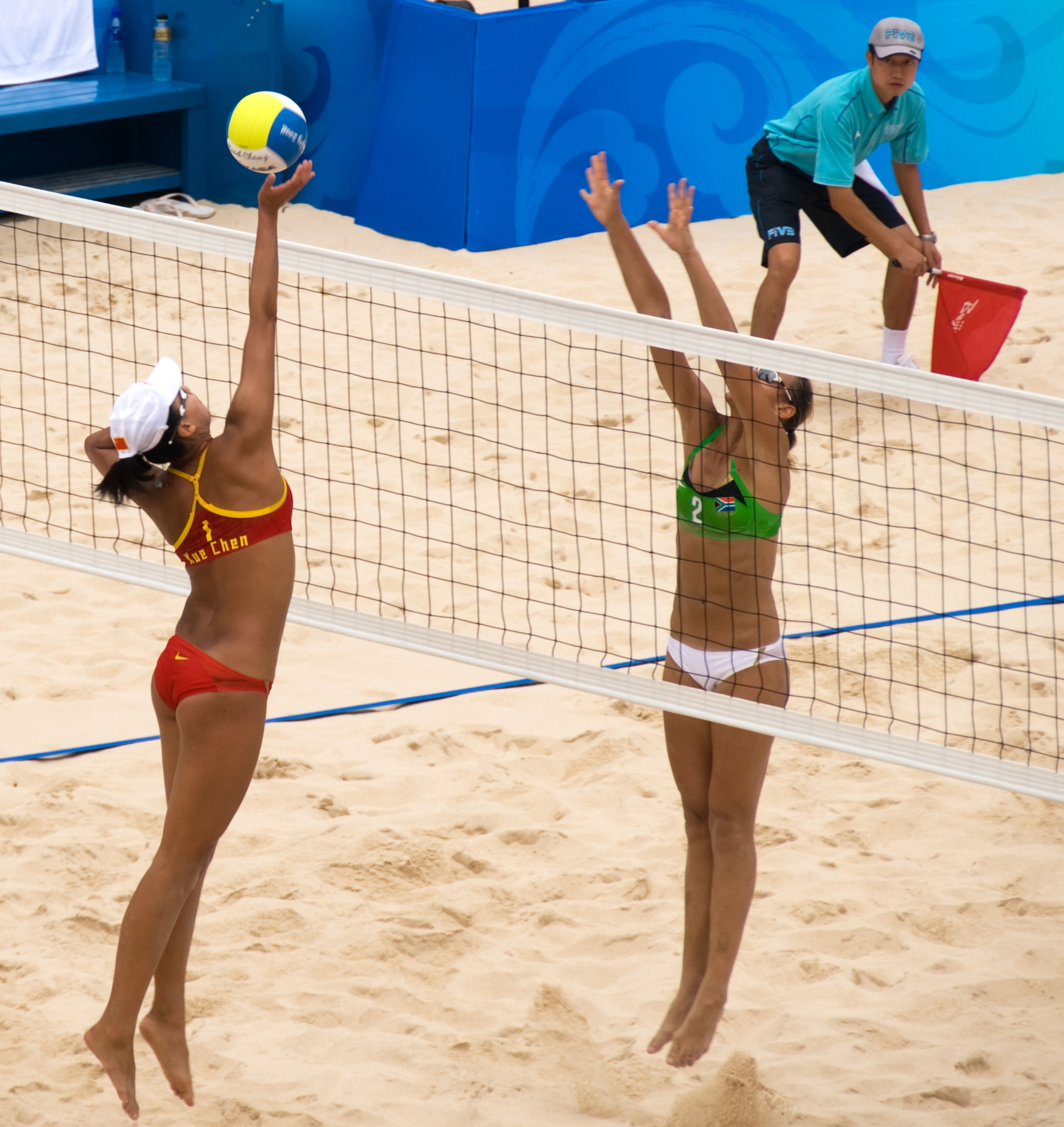 Beijing Olympics, Women's Beach Volleyball, Pool D. Left: Xue Chen of China; Right: Vita Nel of South Africa.